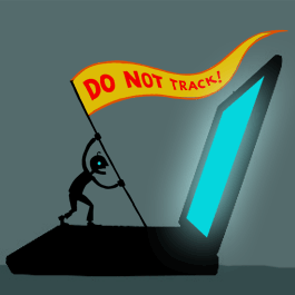 By EFF designer Hugh D'Andrade